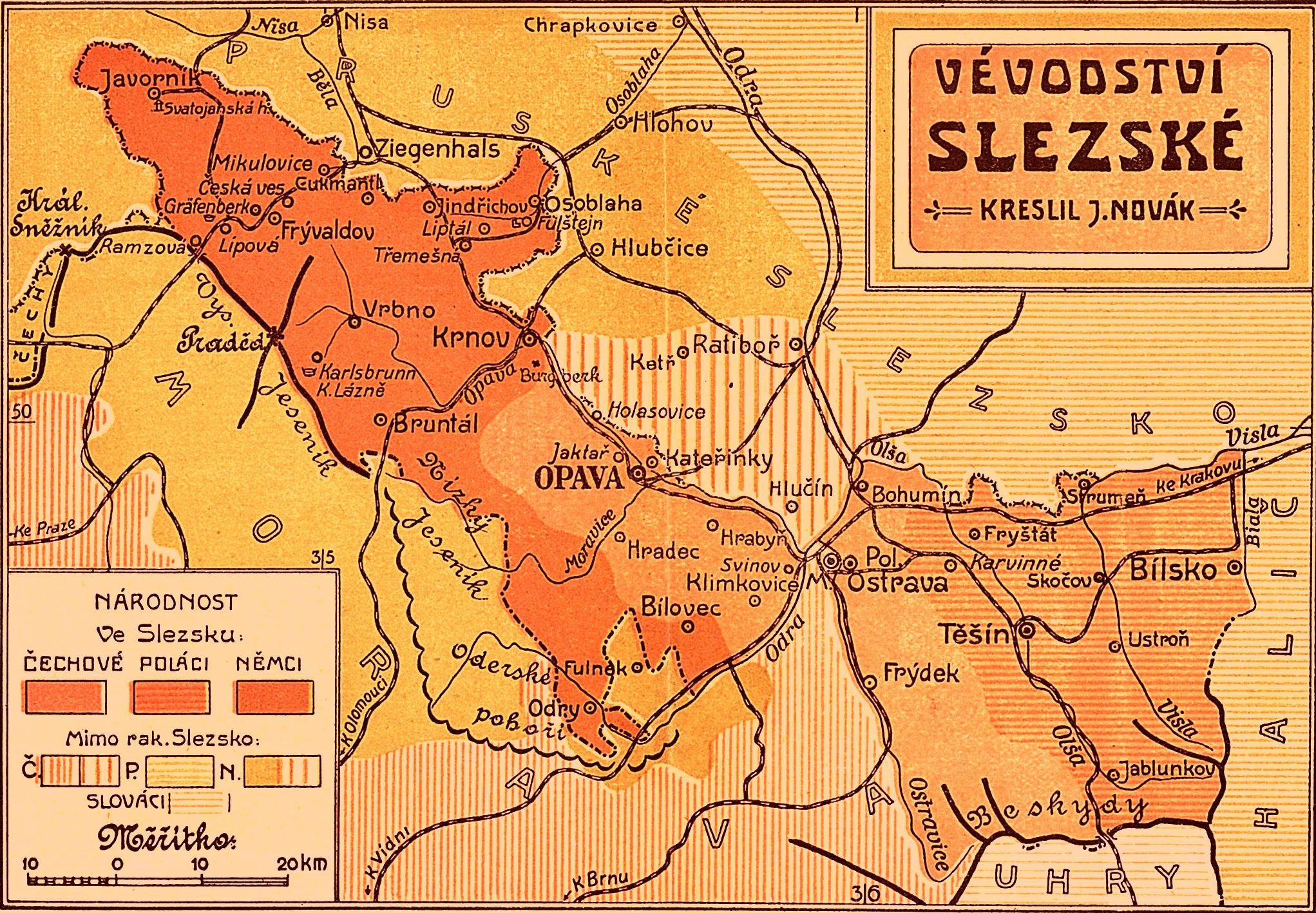 Map of the Austrian Duchy of Silesia with prevailing nationalities (Czechs, Poles and Germans) in 1912. The descriptions are in Czech.